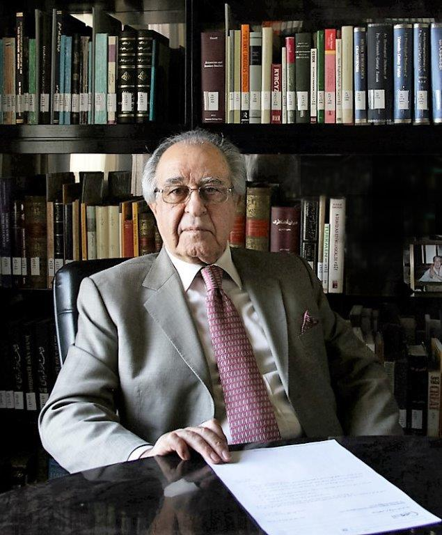 Dariush Borbor, Architect and Urban Planner in his Tehran Office (2013)